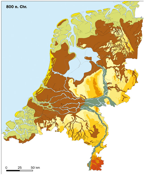 Palaeography of the Netherlands 800 AD